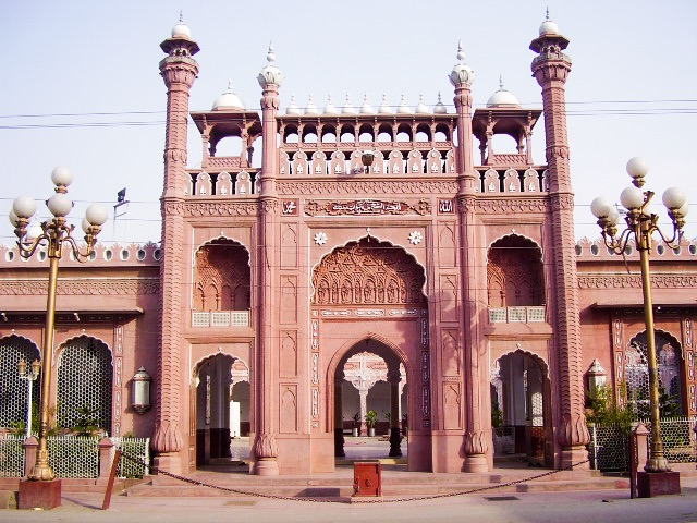 main entrence of Sunehri mosque Peshawar